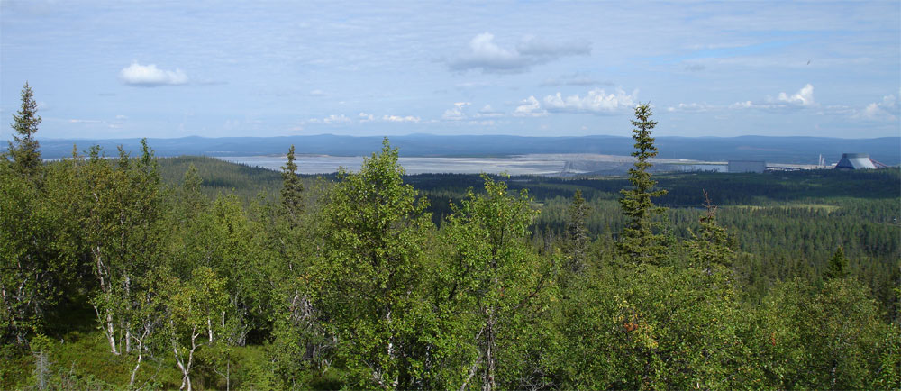 Aitik mine area view from the north, from the top of Iso Leipipir.